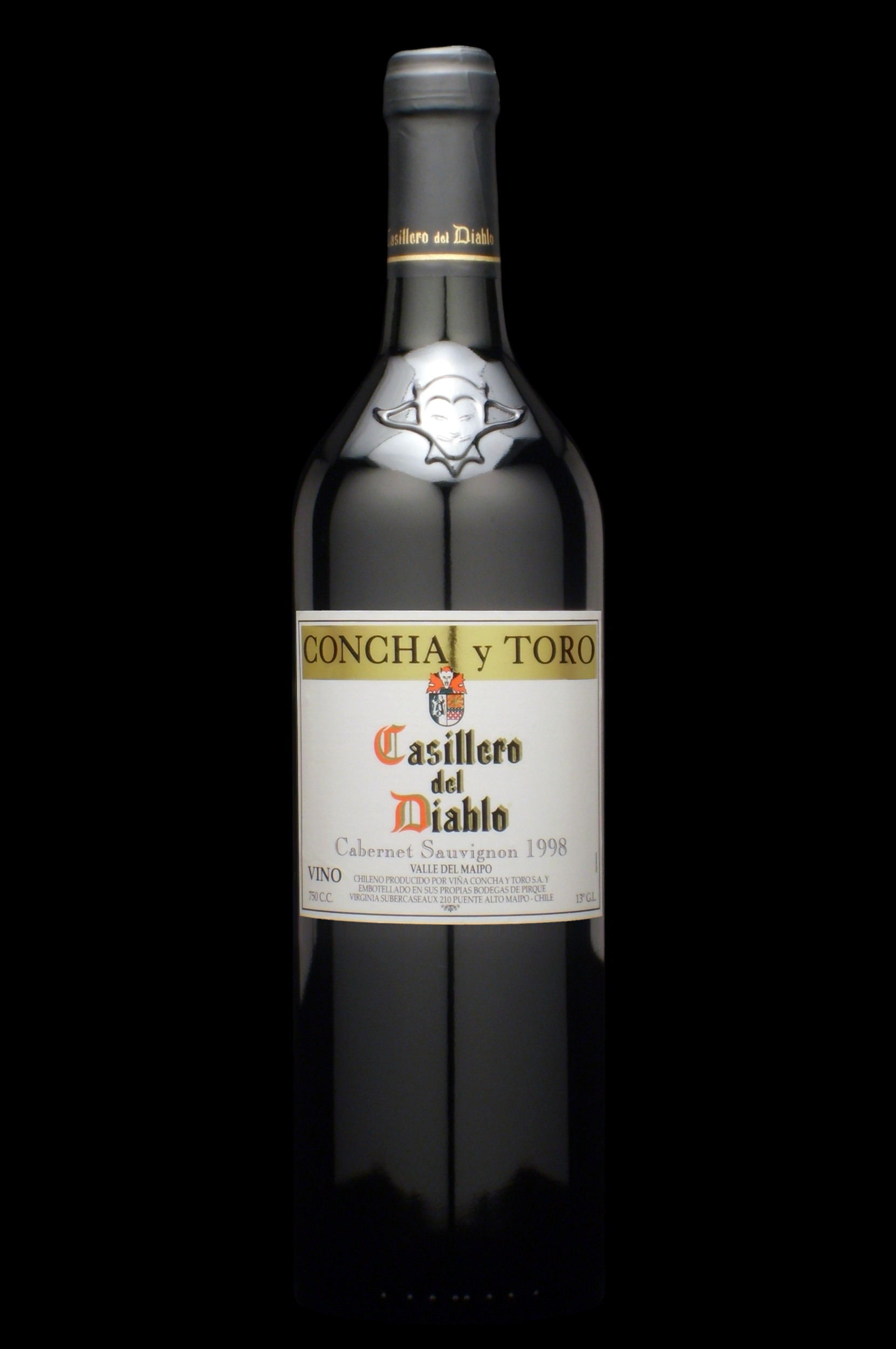 A bottle of red wine Casillero del Diablo Cabernet Sauvignon, 2008 vintage. Produce of Concha y Toro.